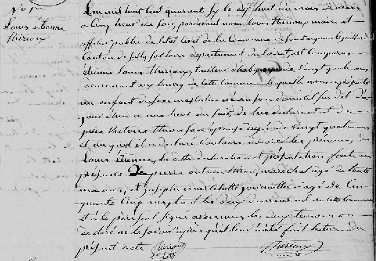 Birth entry of Louis Étienne Thirioux 18 March 1846 in Saint-Aignan-le-Jaillard, Loiret